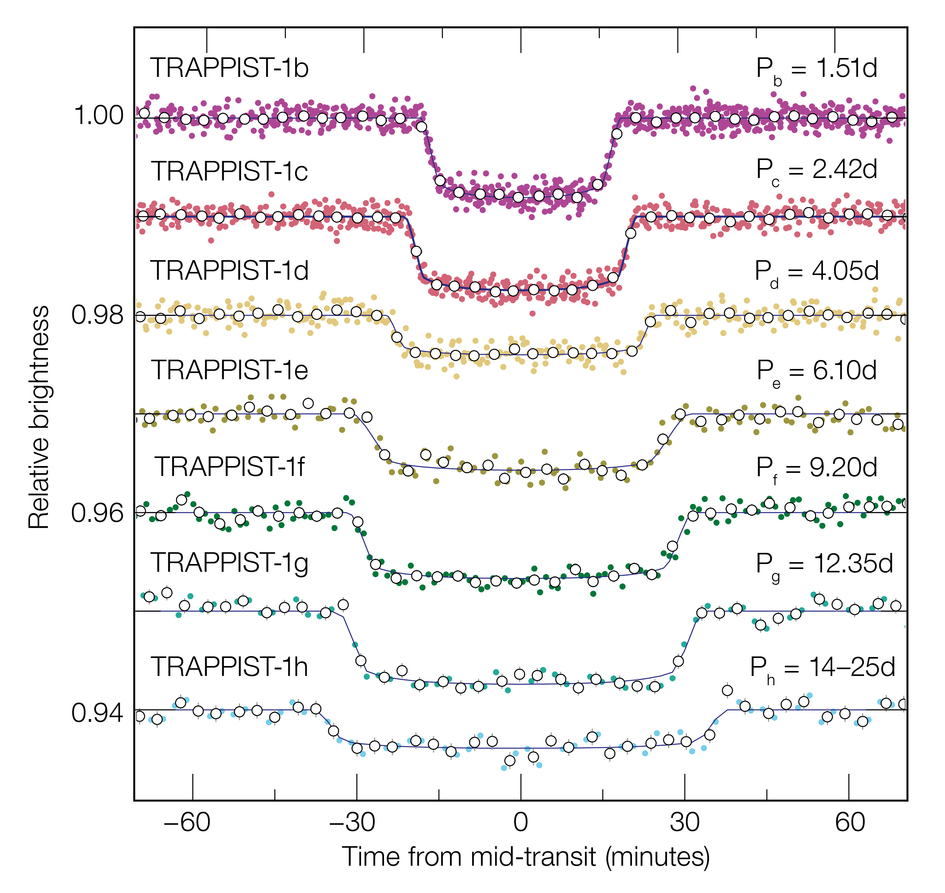 This diagram shows how the light of the dim red ultra cool dwarf star TRAPPIST-1 fades as each of its seven known planets passes in front of it and blocks some of its light. The larger planets create deeper dips and the more distance ones have longer lasting transits as they are orbiting more slowly. These data were obtained from observations made with the NASA Spitzer Space Telescope.